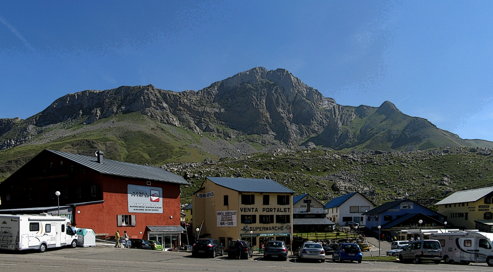 Col de Portalet - on the Border of France and Spain